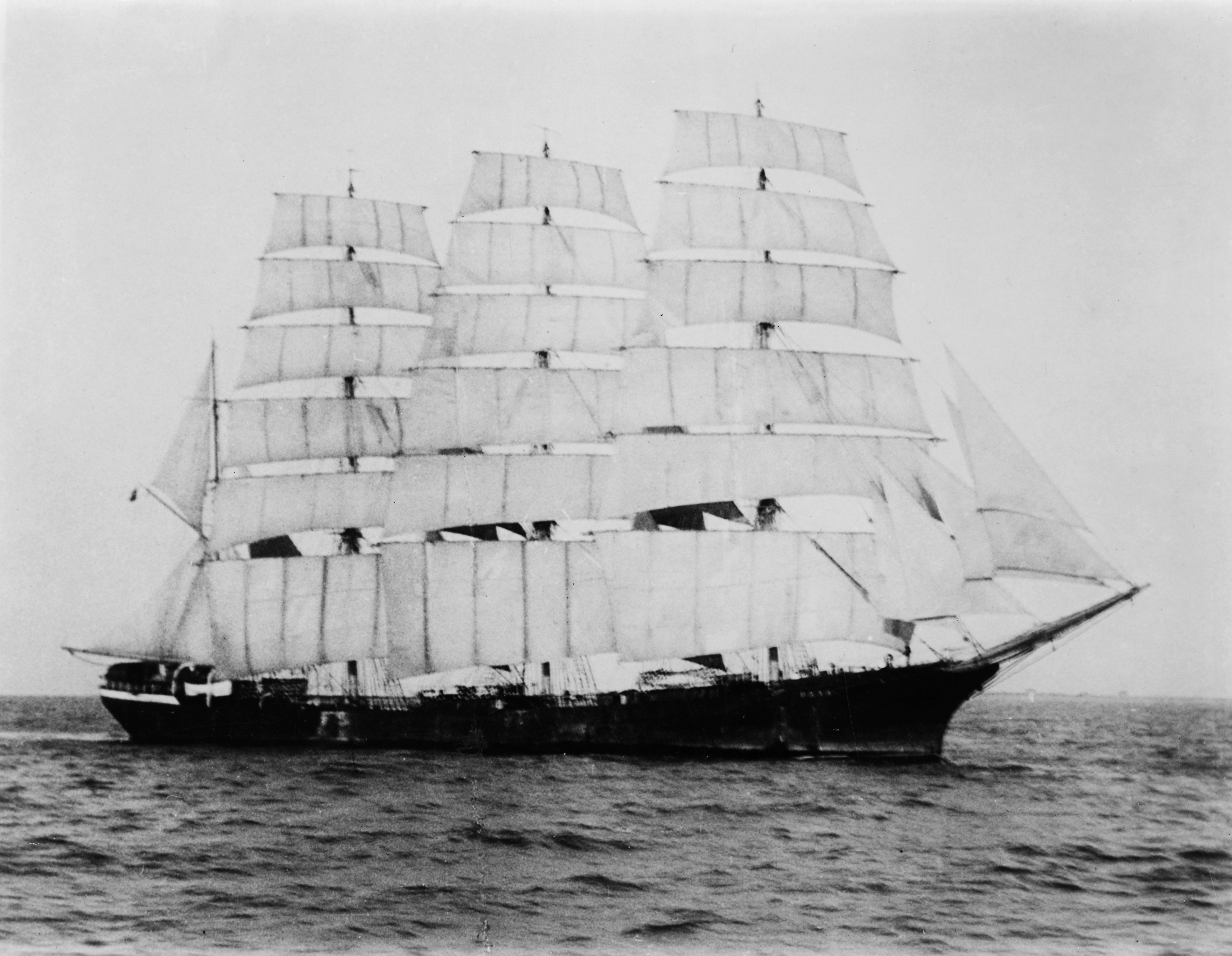 The Parma in full sail.